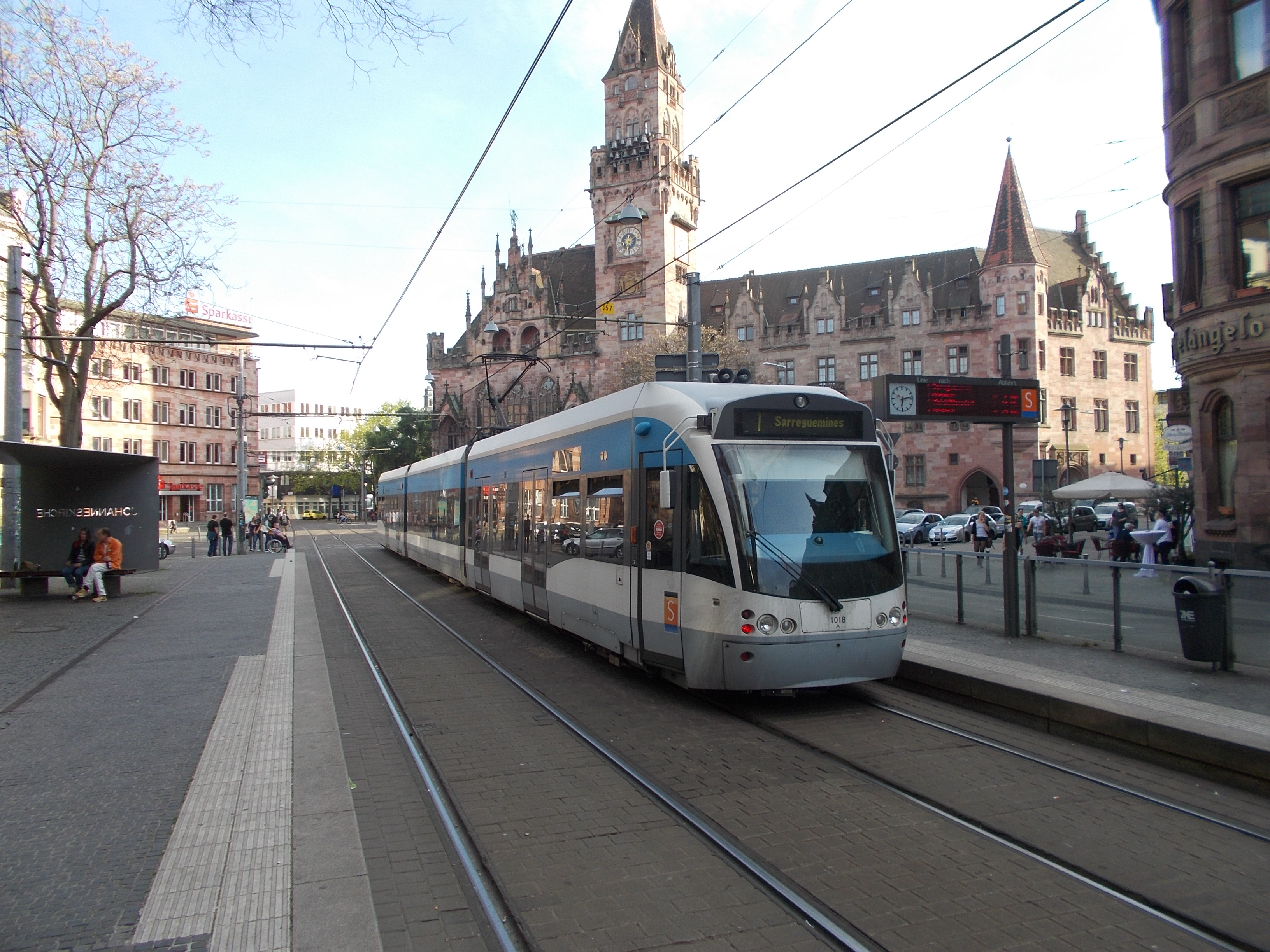 Saarbahn Tramway in front of Sarrebruck City Hall